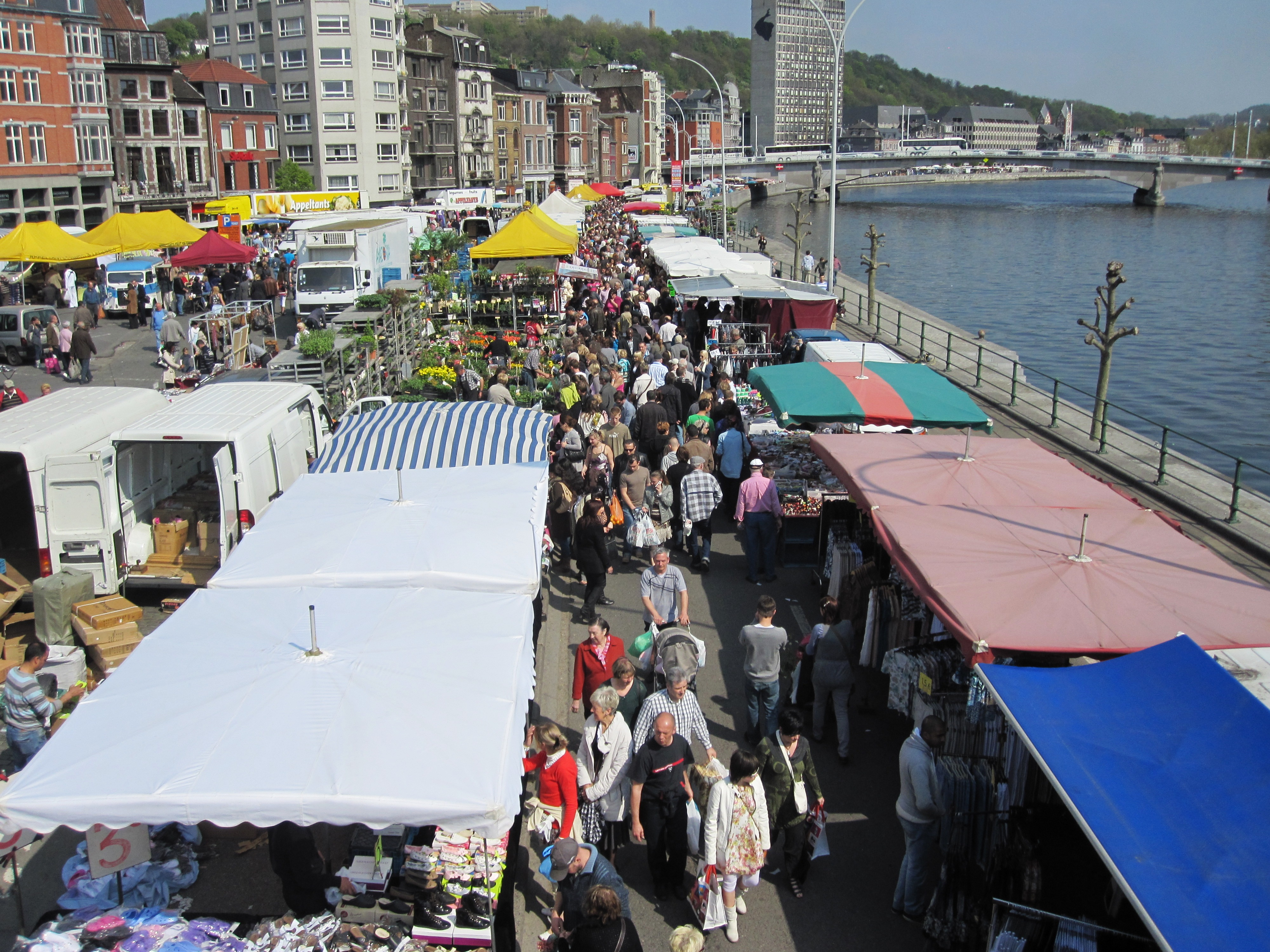 The Sunday market of la Batte in 2011